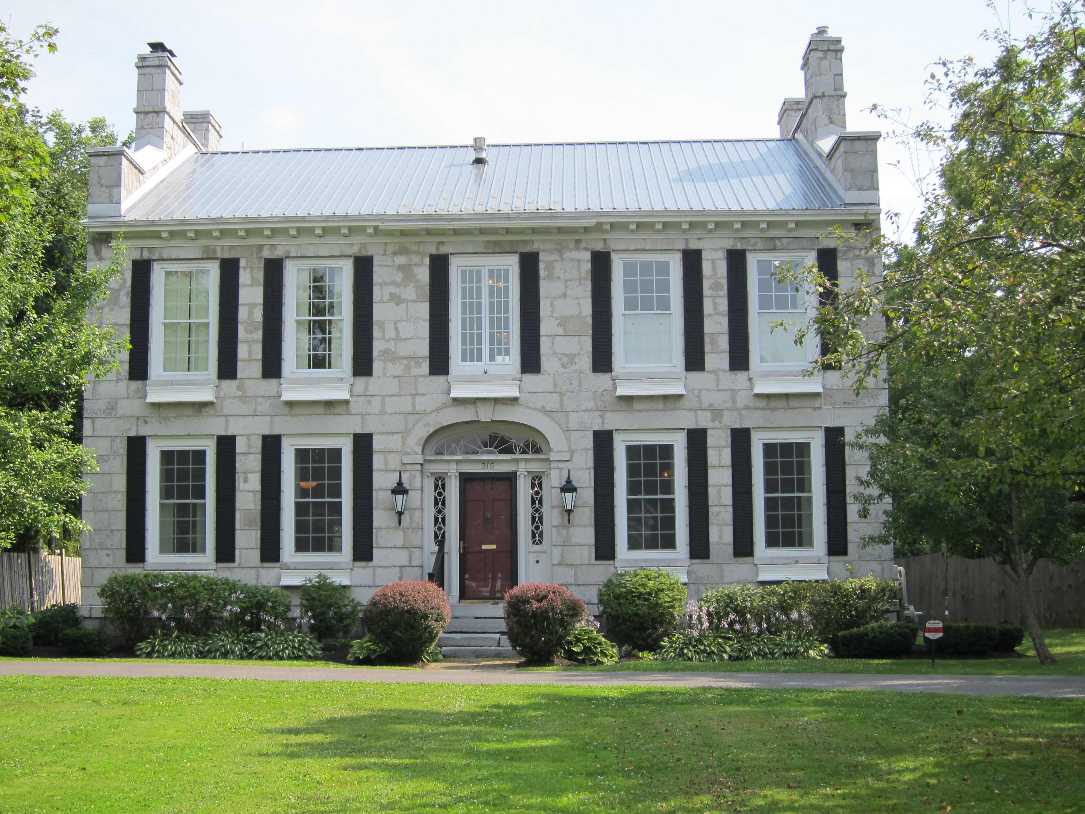 Construction on the Orville Hungerford house, originally located at 336 Washington Street in Watertown, New York, began in 1823.